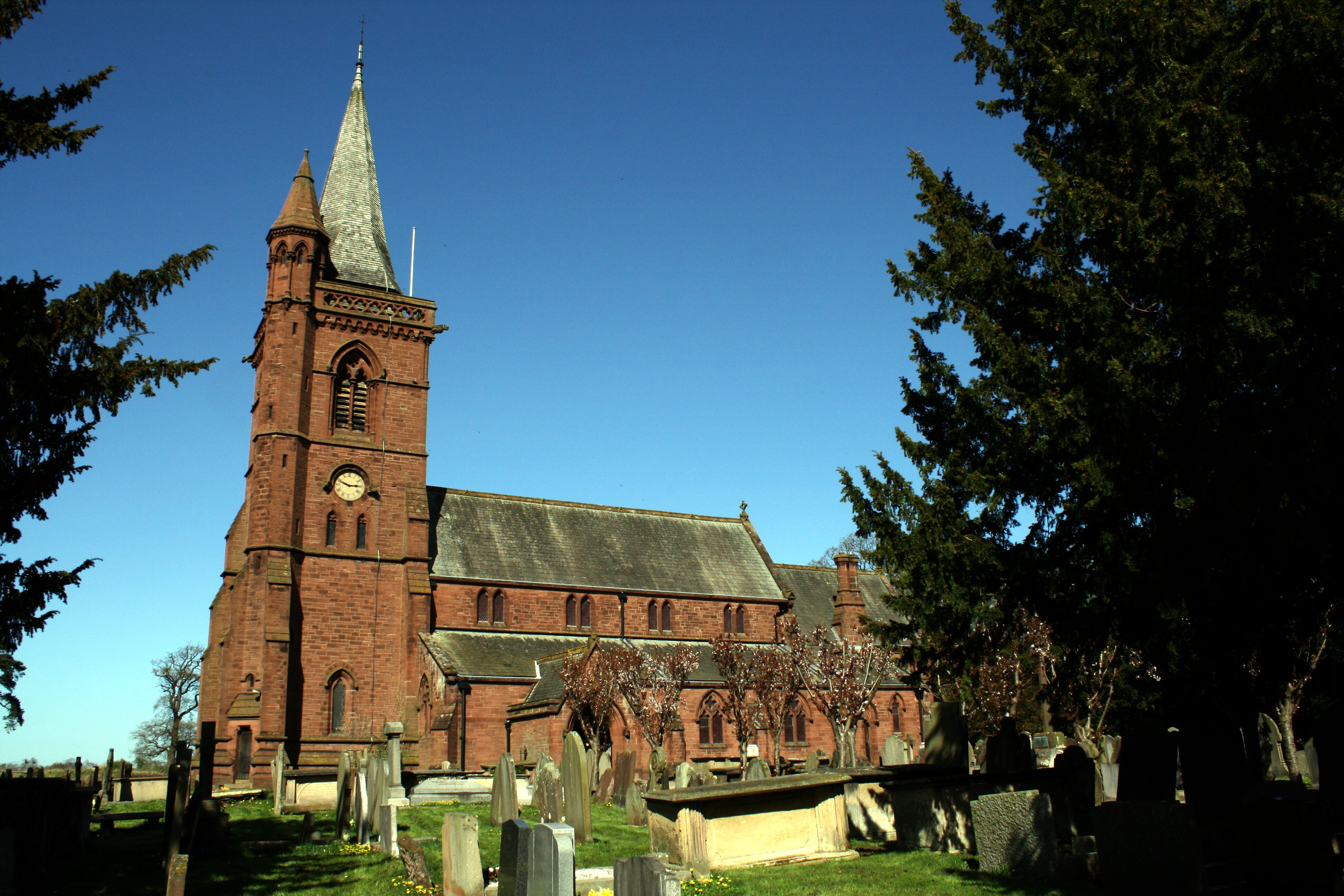 St John the Baptist parish church, Aldford, Cheshire, seen from the south